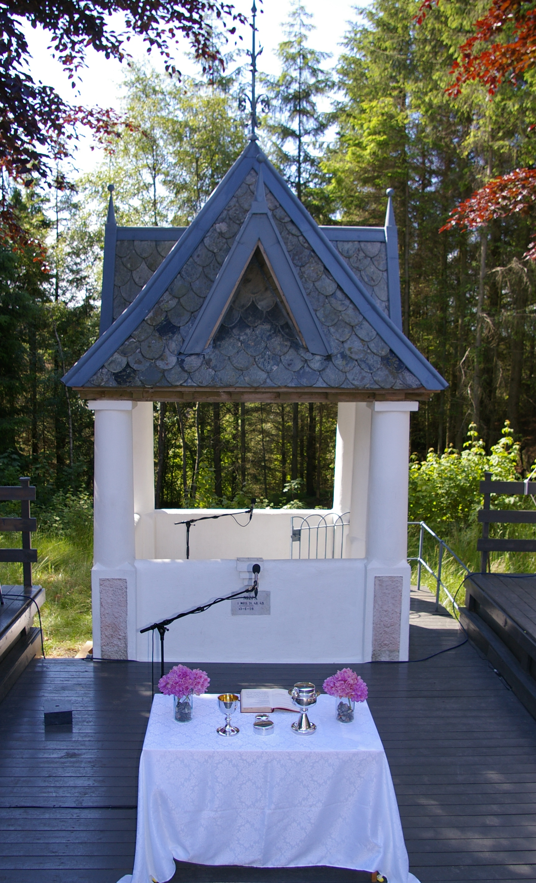 Altar at Mizpa, Askøy, Norway